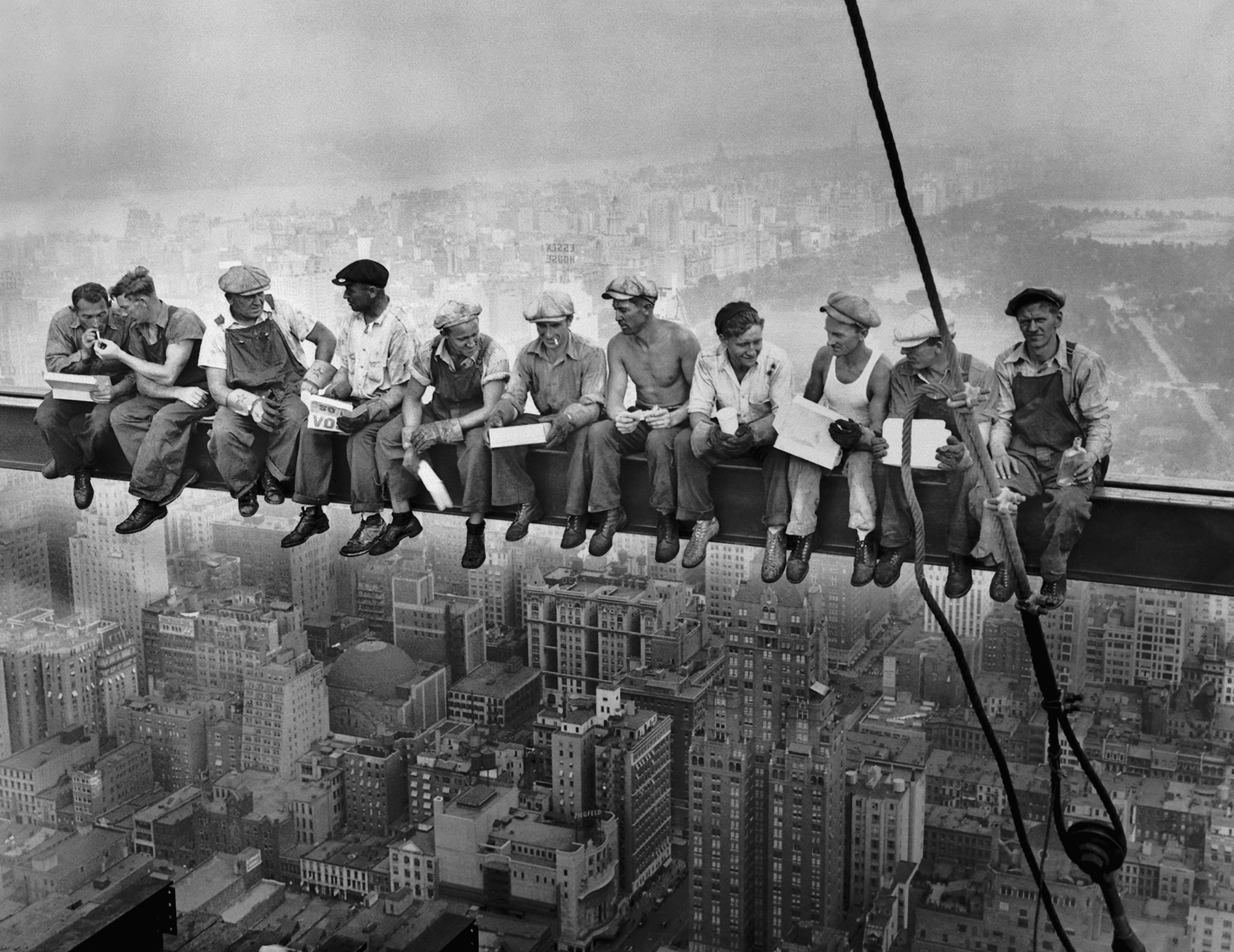 Lunch atop a Skyscraper, published in the New York Herald-Tribune, Oct. 2 1932, Charles Clyde Ebbets, Tom Kelley, or William Leftwich.